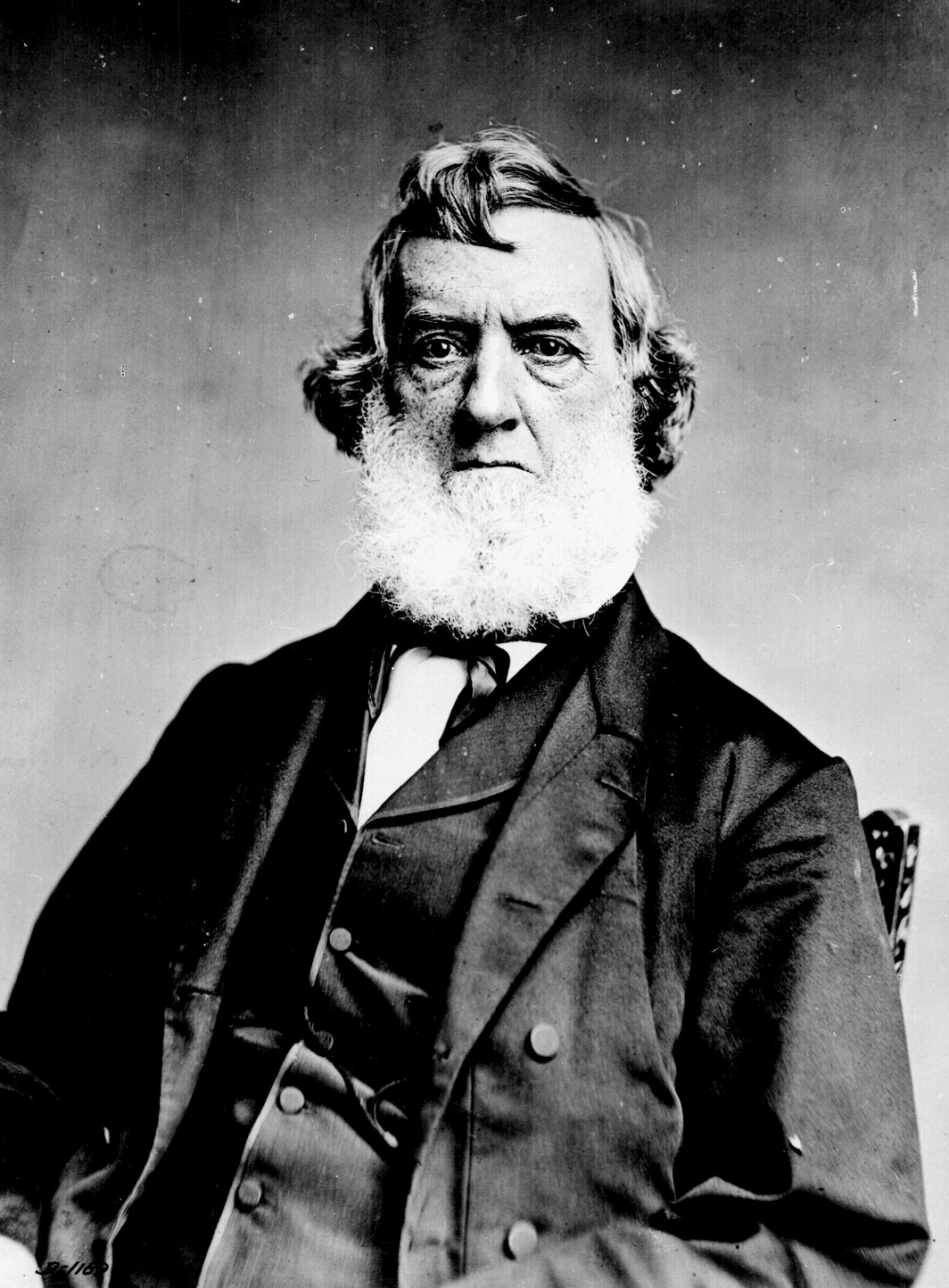 Gideon Welles, Secretary of the Navy; half-length, seated.